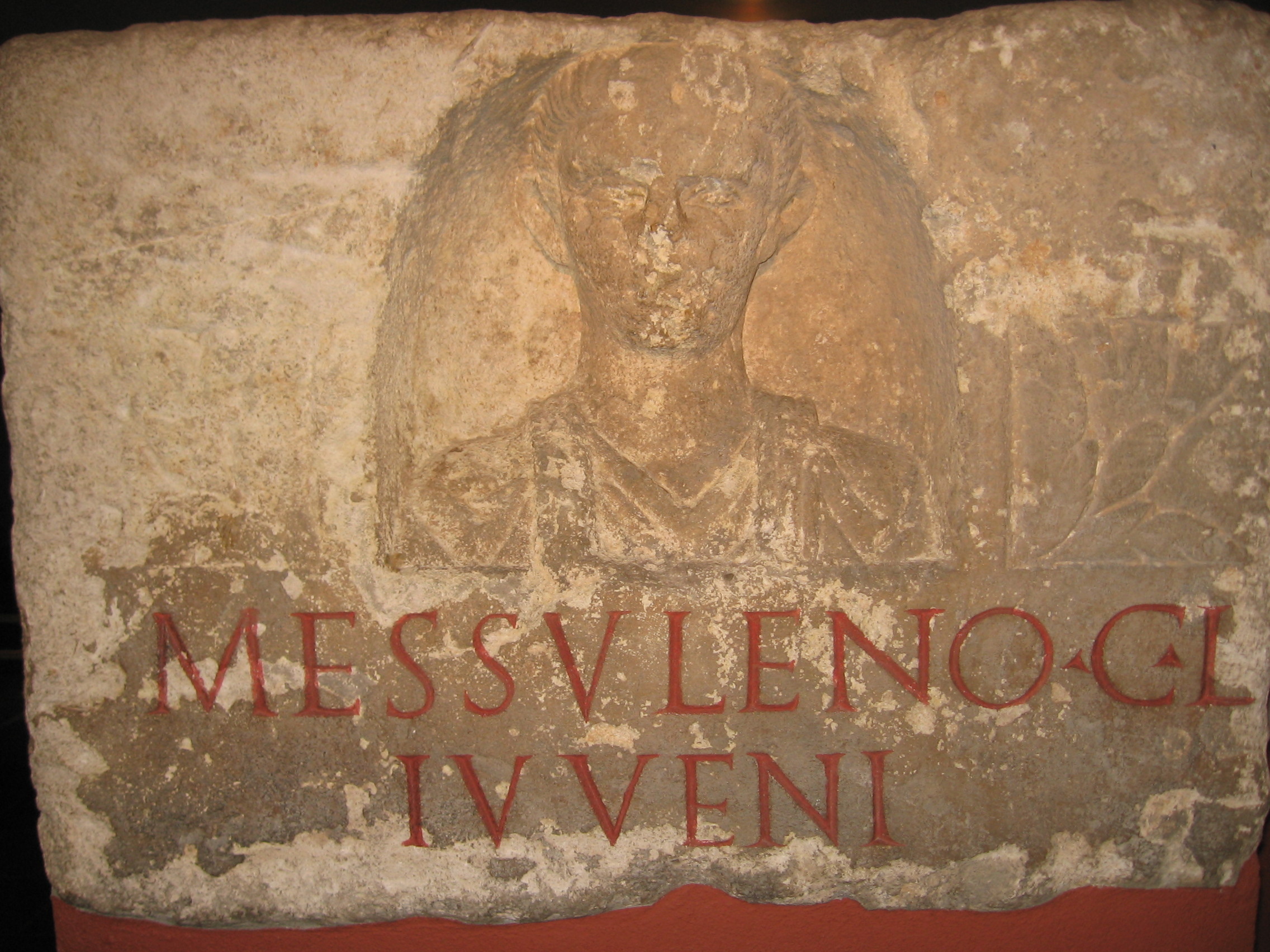 the inscription says: For Gaius Messulenus, freedman of Gaius Iuvenus ; Found in the Römisch-Germanisches Museum in Cologne, Germany.